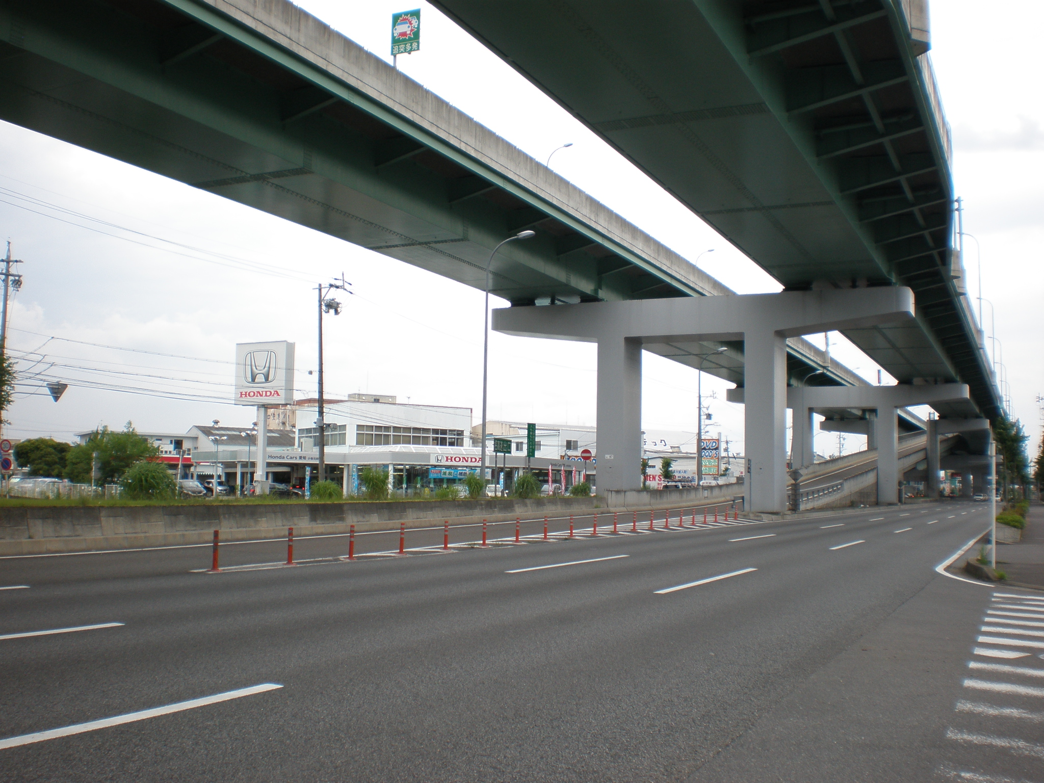 Horinouchi Exit on the Nagoya Expressway Route 11 in Komaki City, Aichi Prefecture, Japan